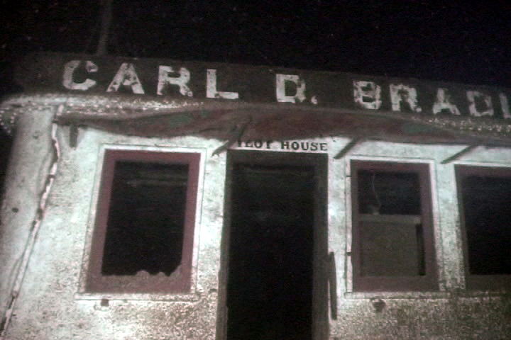 Carl D. Bradley Pilot House. Depth here is approx. 315 feet.